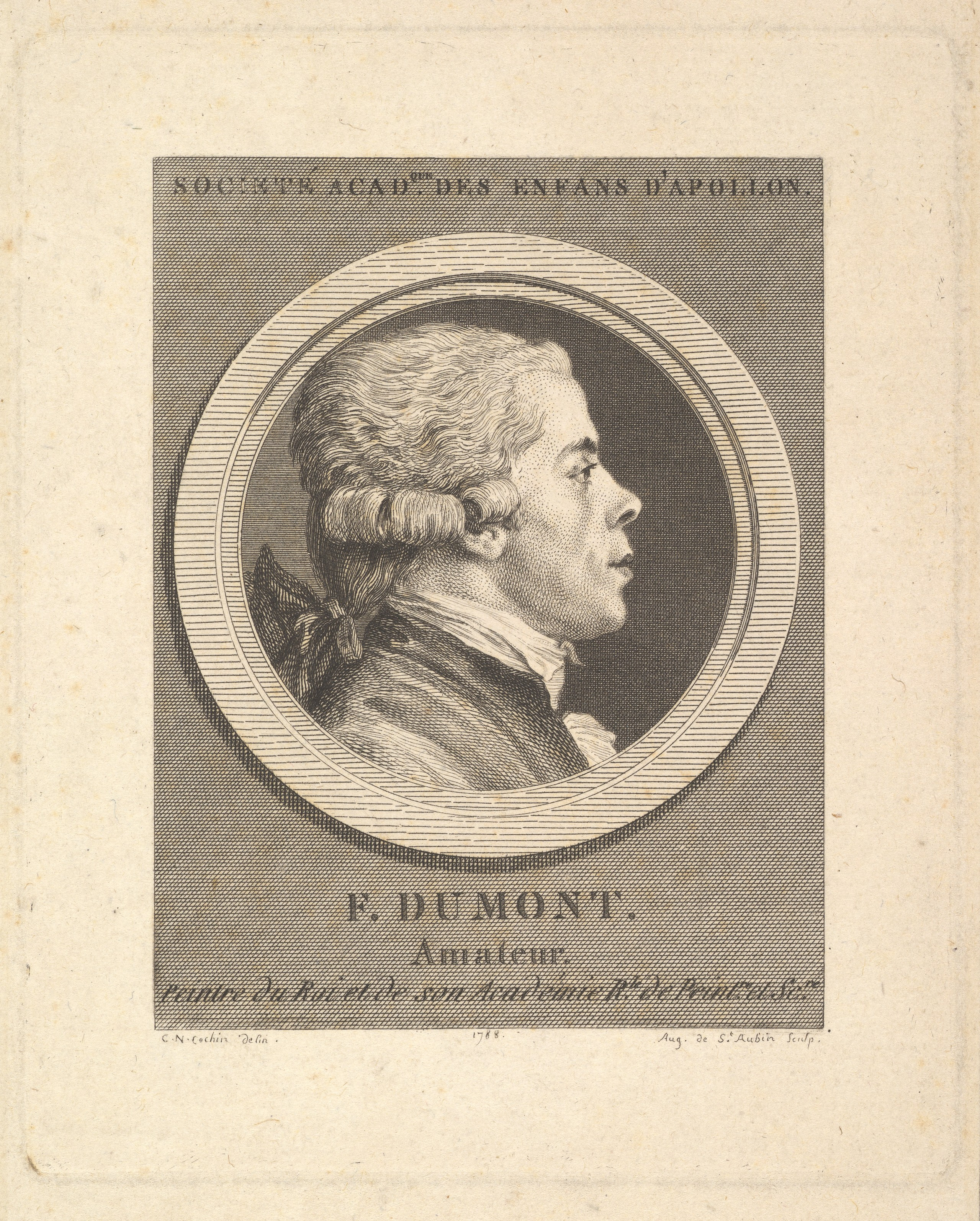 Print; Prints